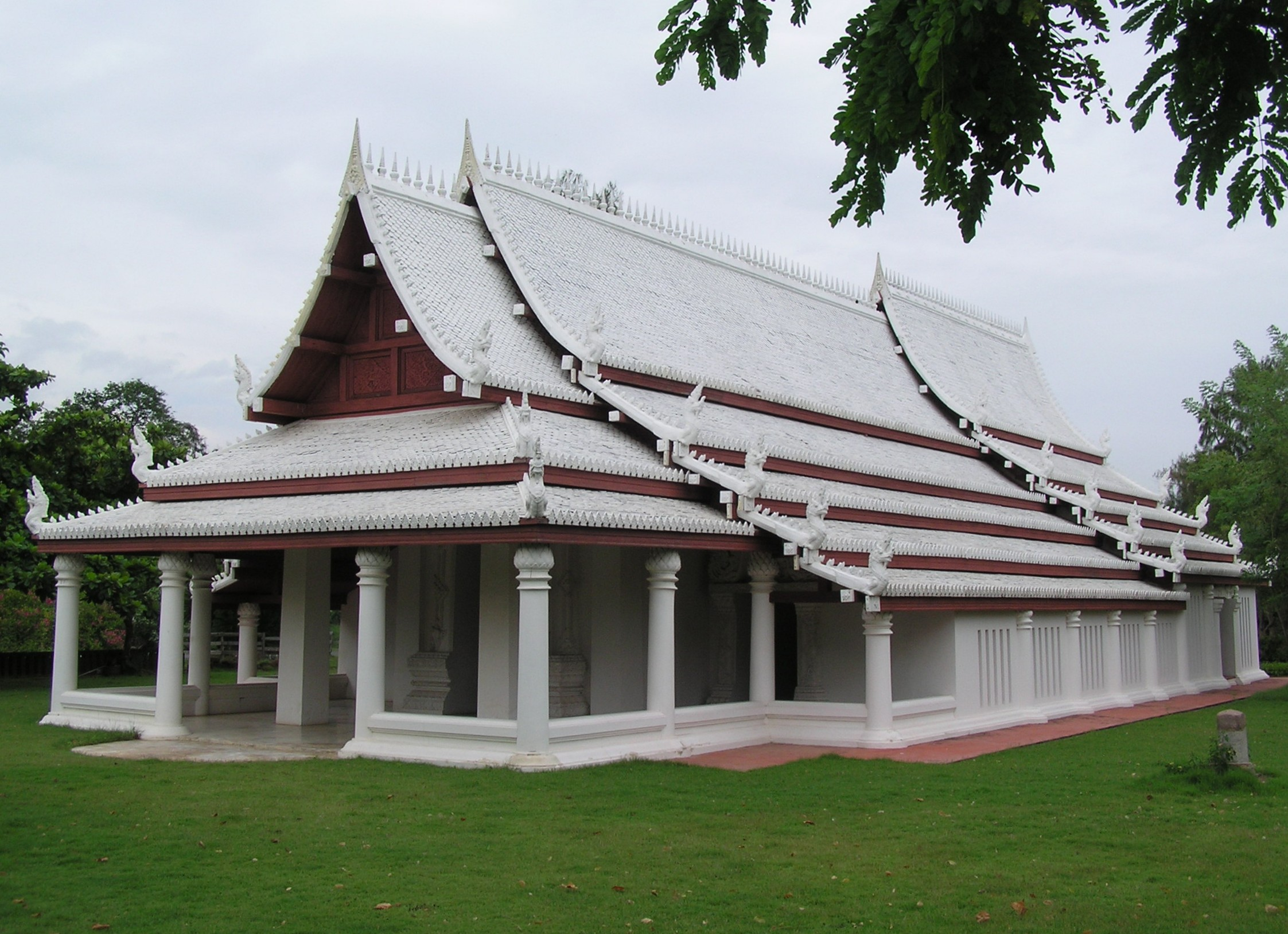 replica of "The Sukhothai Viharn" (not a palace) in Muang Boran ("Ancient City") near Bangkok, Thailand. It was reconstructed based on the viharn (preaching hall) of Phra Buddha Chinnarat in Wat Phra Si Rattana Mahathat in Phitsanuloke and the viharn at Wat Nang Phaya in Si Satchanalai. (Description by Hdamm)